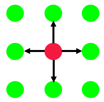 The alignment of elements in n-D arrays is characterized by their Euclidean neighborhood: except for the borders, every element has one lower and one upper neighbor in each direction.